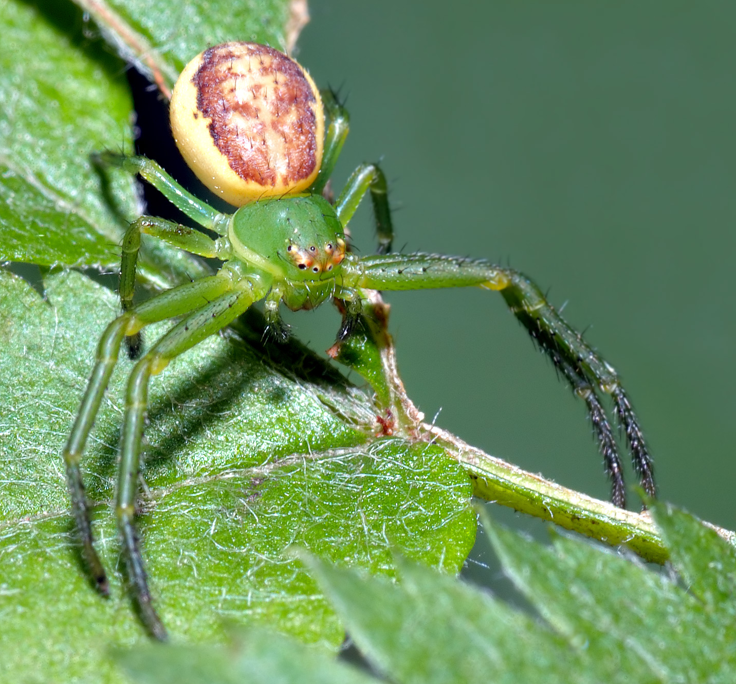 This image shows a 0.18 inch (4.5 mm) long Diaea dorsata spider.